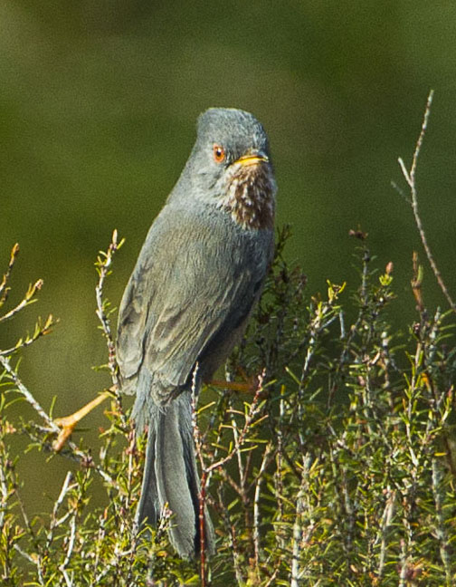 Male Dartford warbler - Ligura - Italy_S4E3711